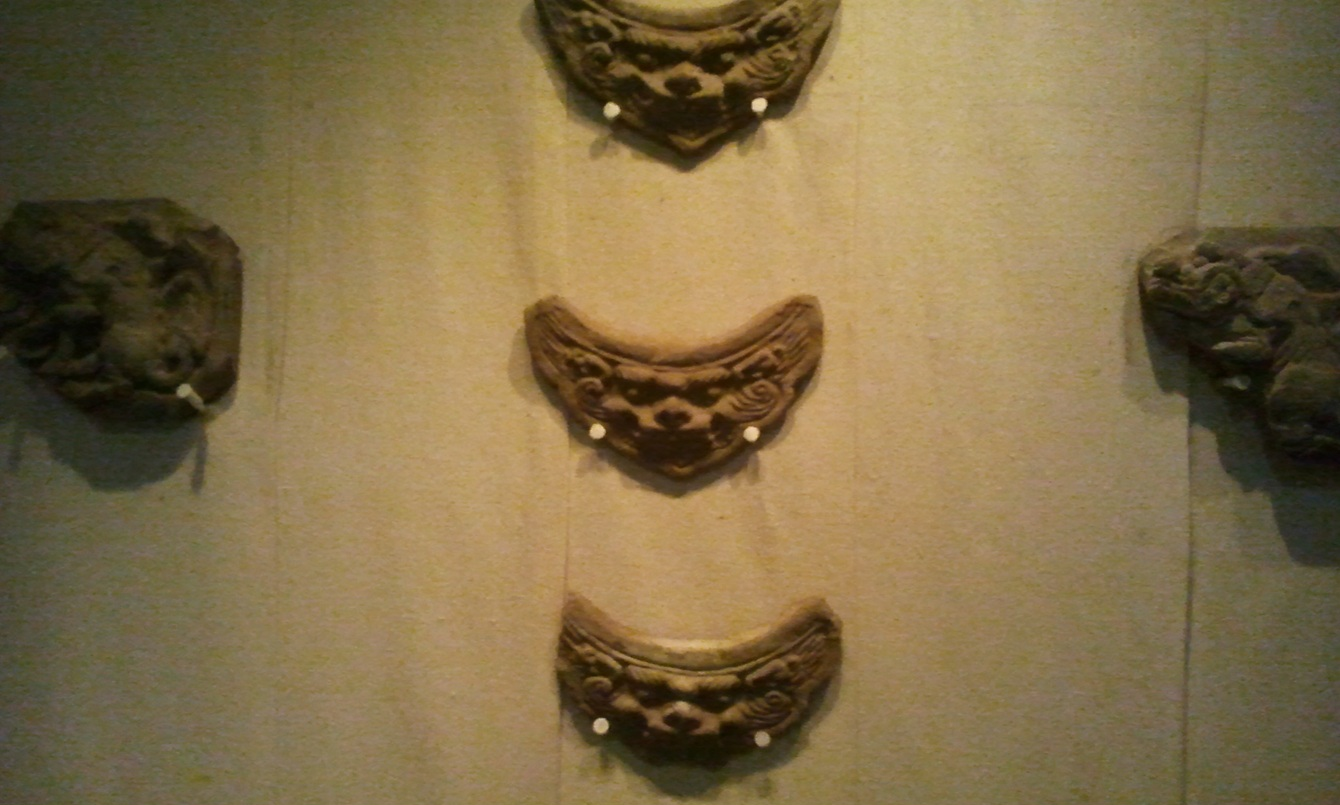 Roof tiles found at the 12th century Palace of Wang Khan in Songinokhairkhan District, Ulaan Baatar, Mongolia. Excavated in 2006. Collection of the National Museum of Mongolia.